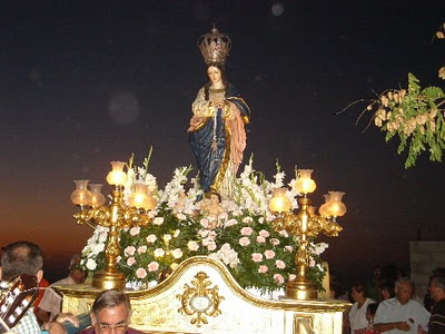 virgen